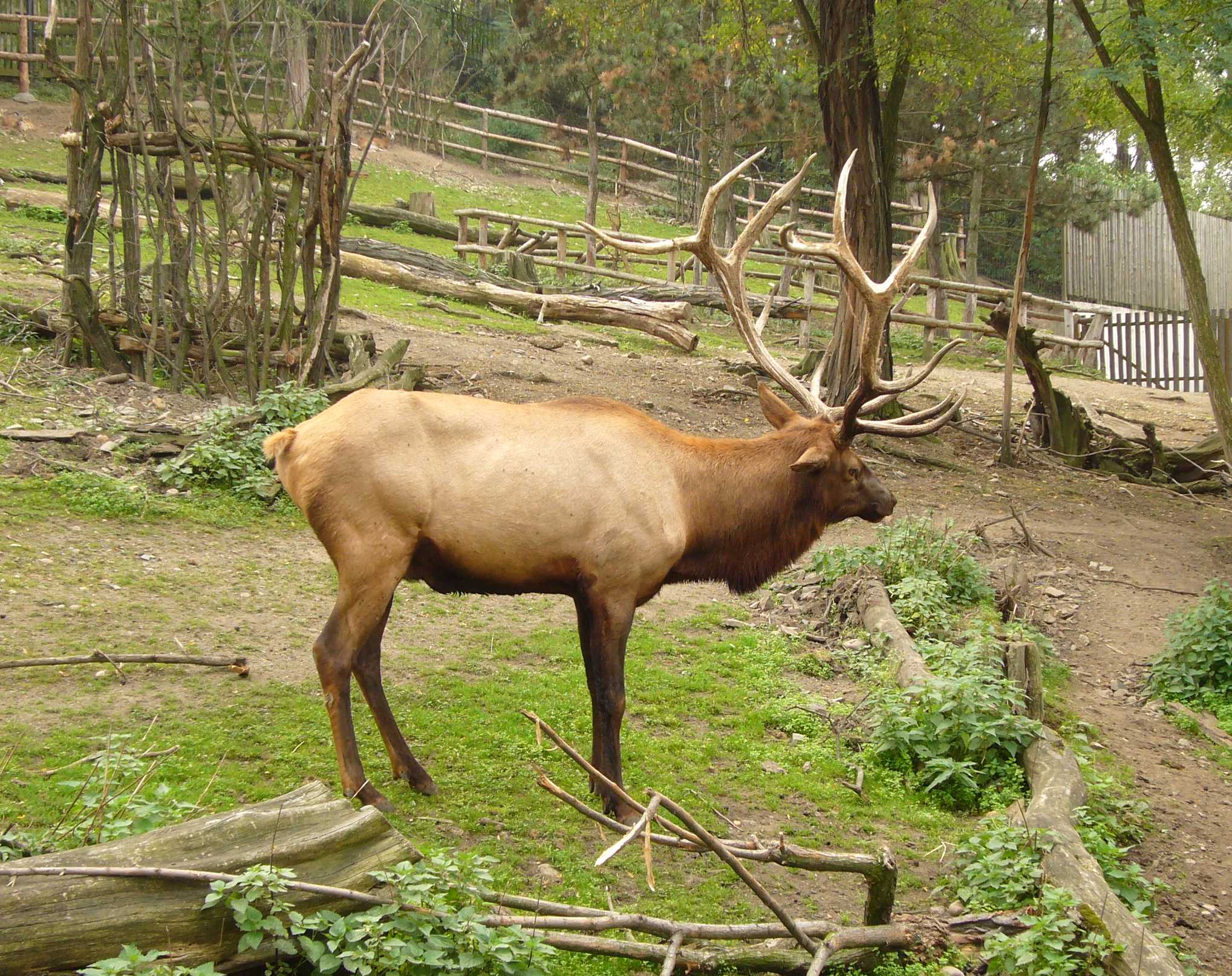 Cervus elaphus manitobensis (Zoo Prague).